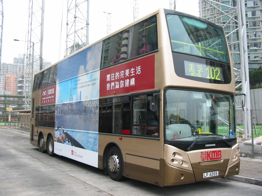 九巴一輛Trident E500巴士行走102路線，由zh:User:Wrightbus拍攝。 A KMB Enviro 500 double-decker running on route 102. Photo taken by User:Wrightbus.